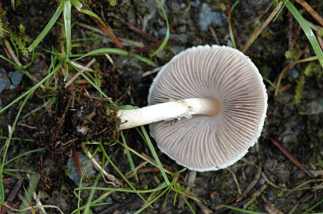 Please contact James Lindsey when you think this is a different taxon. James Lindsey, the copyright holder of this work, hereby publishes it under the following licenses: Attribution: James Lindsey at Ecology of Commanster